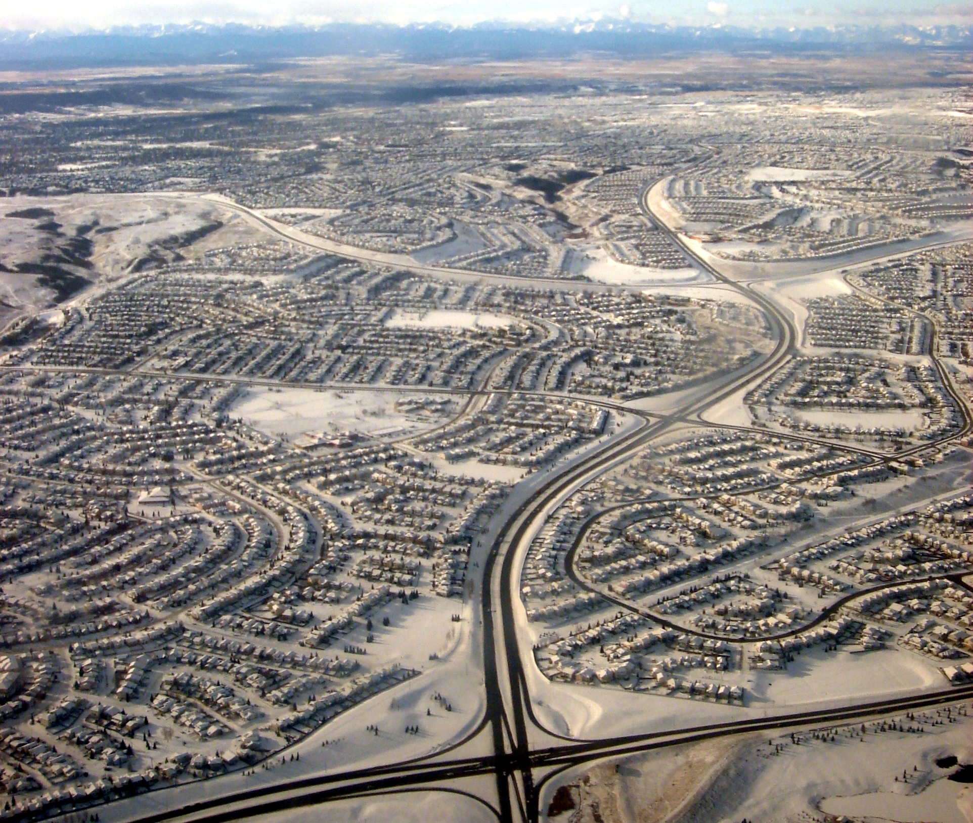 Aerial view of the neighbourhood of Sandstone Valley in Calgary, Alberta, Canada. Nose Hill in the upper left, Country Hills Boulevard and Beddington Trail intersecting in the lower part of the photo